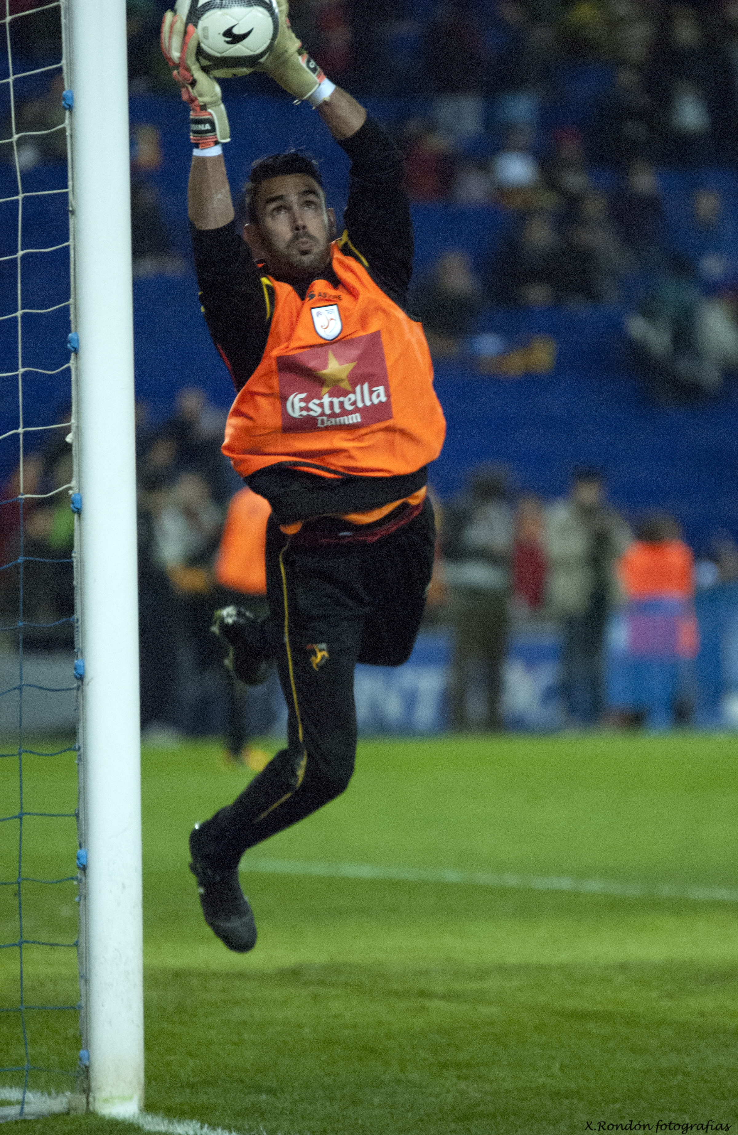 Jordi Codina during friendly match Catalonia vs. Nigeria